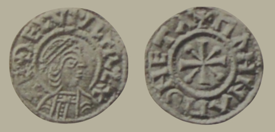 A cleaner version of Coin of King Æthelwulf of Wessex.JPG. The coin is inscribed "EĐELVVLF REX" on the obverse and "MANNA MONETA" on the reverse.